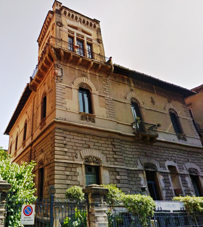 Villa Miranda, Via XX Settembre, angolo via Grotte Bianche, Catania, arch. Francesco Fichera (1)